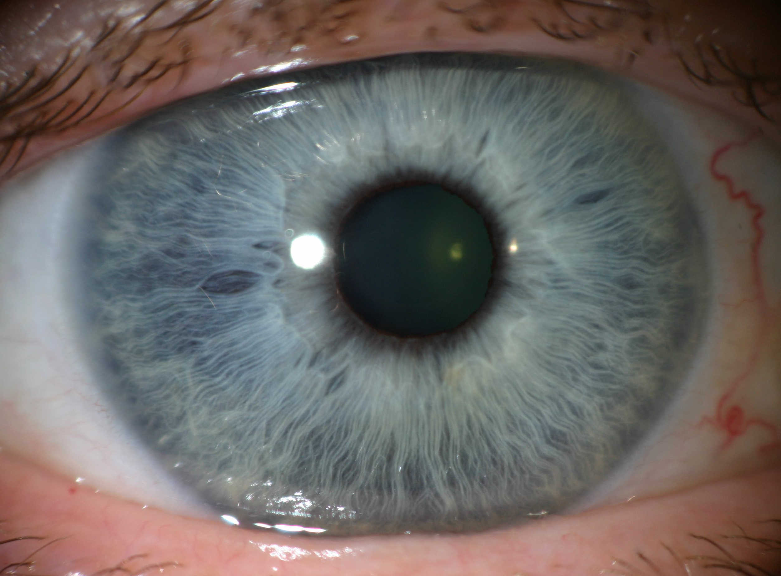 Right iris of primarily lymphatic constitution